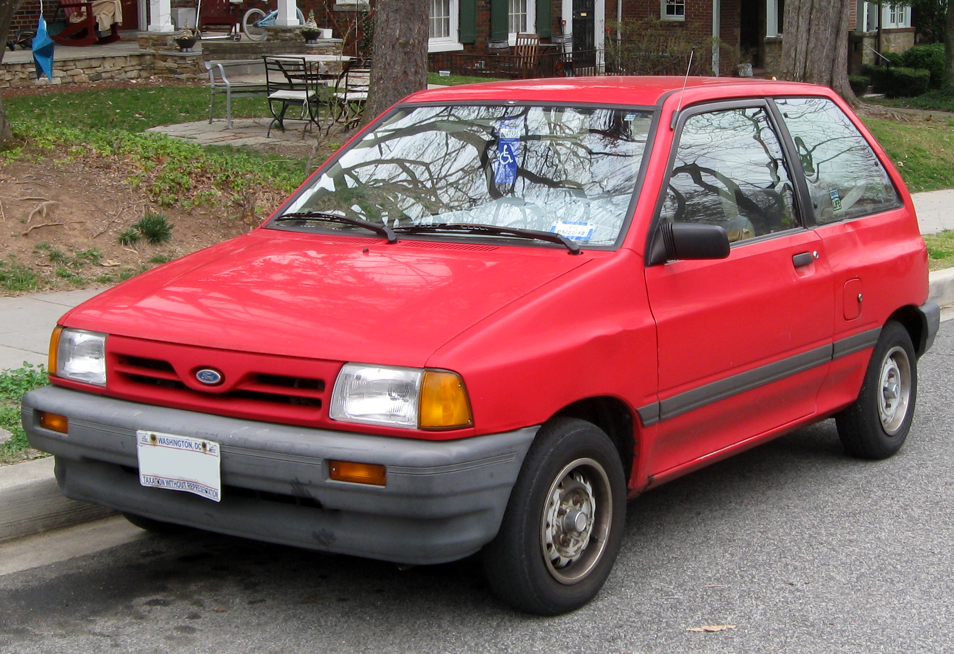 1990 Ford Festiva photographed in Washington, D.C., USA.